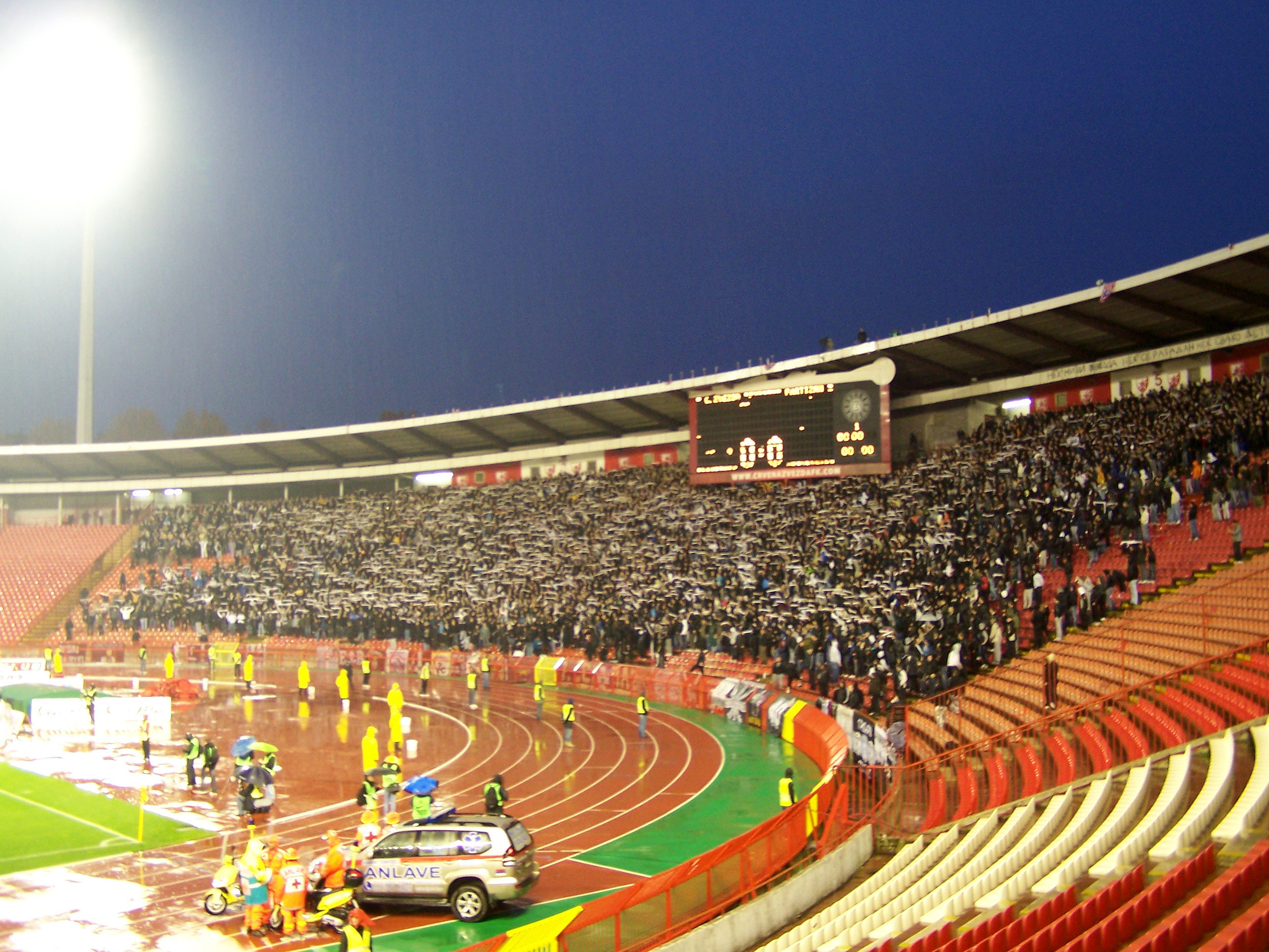 Grobari before the FK Crvena Zvezda - FK Partizan match in Belgrade